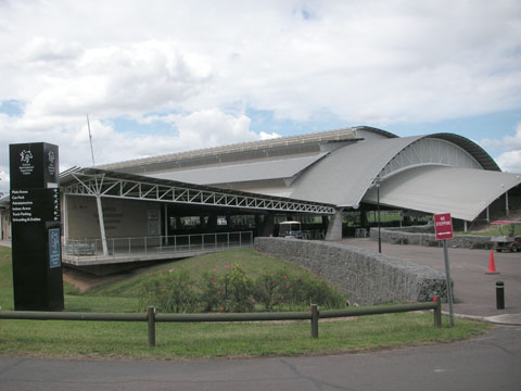 Sydney International Equestrian Centre, Horsley Park, NSW. One of the Sydney Olympic venues